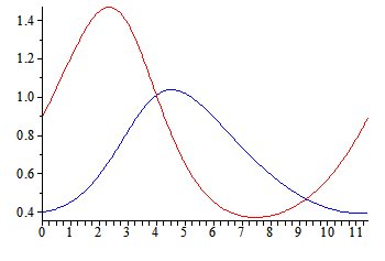 Results of a Lotka-Volterra model: time dependency